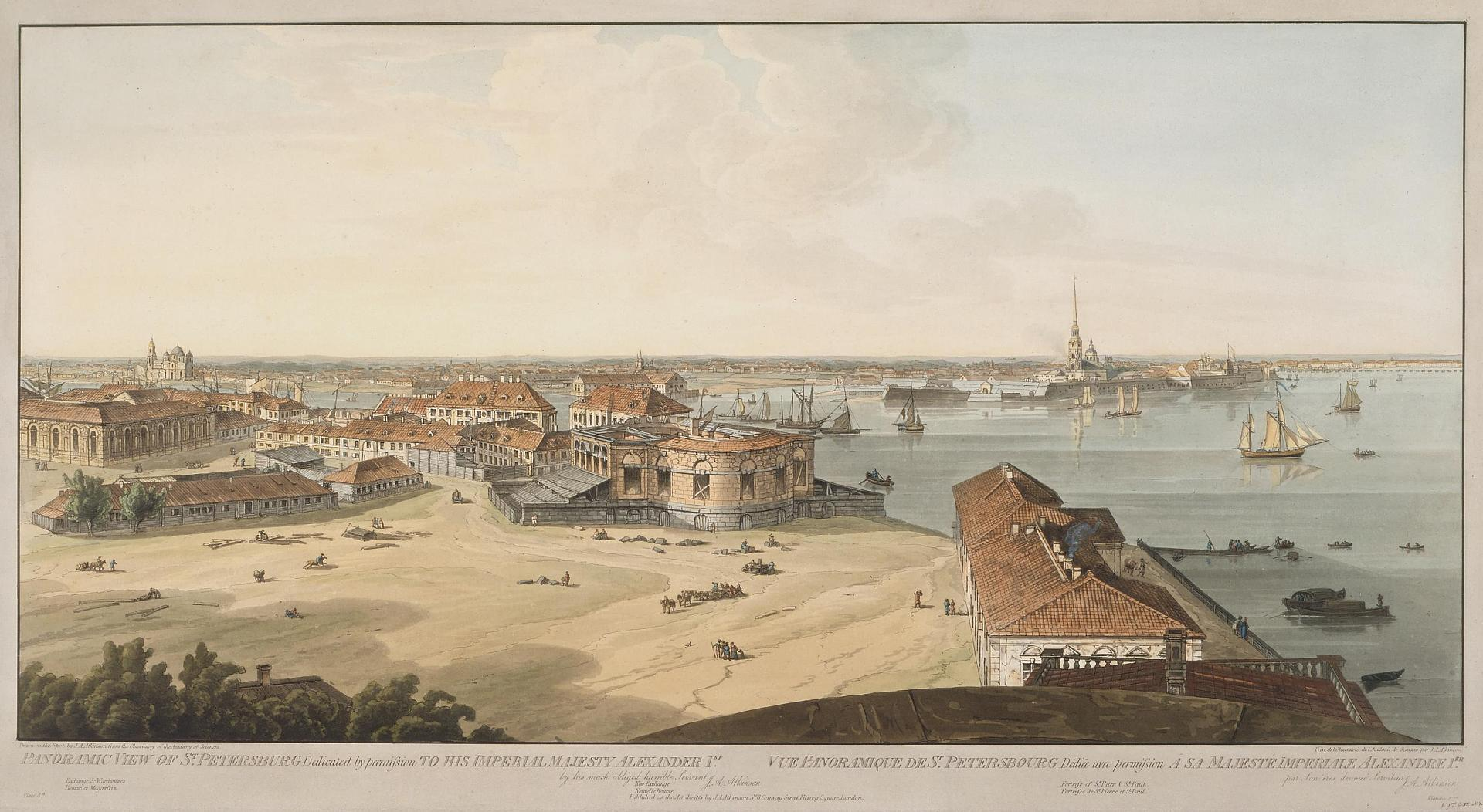 Caption (en/fr): "Panoramic view on Spit of the Vasilievsky Island in St. Petersburg, dedicated by permission to his Imperial Majesty Alexander 1st. by his much obliged humble servant J.A. Atkinson / drawn on the spot by J.A. Atkinson, from the observatory of the Academy of Sciences. 1802-1805. Plate 4th. Exchange et Warehouse. New Exchange. Fortress of St. Peter et St. Paul"